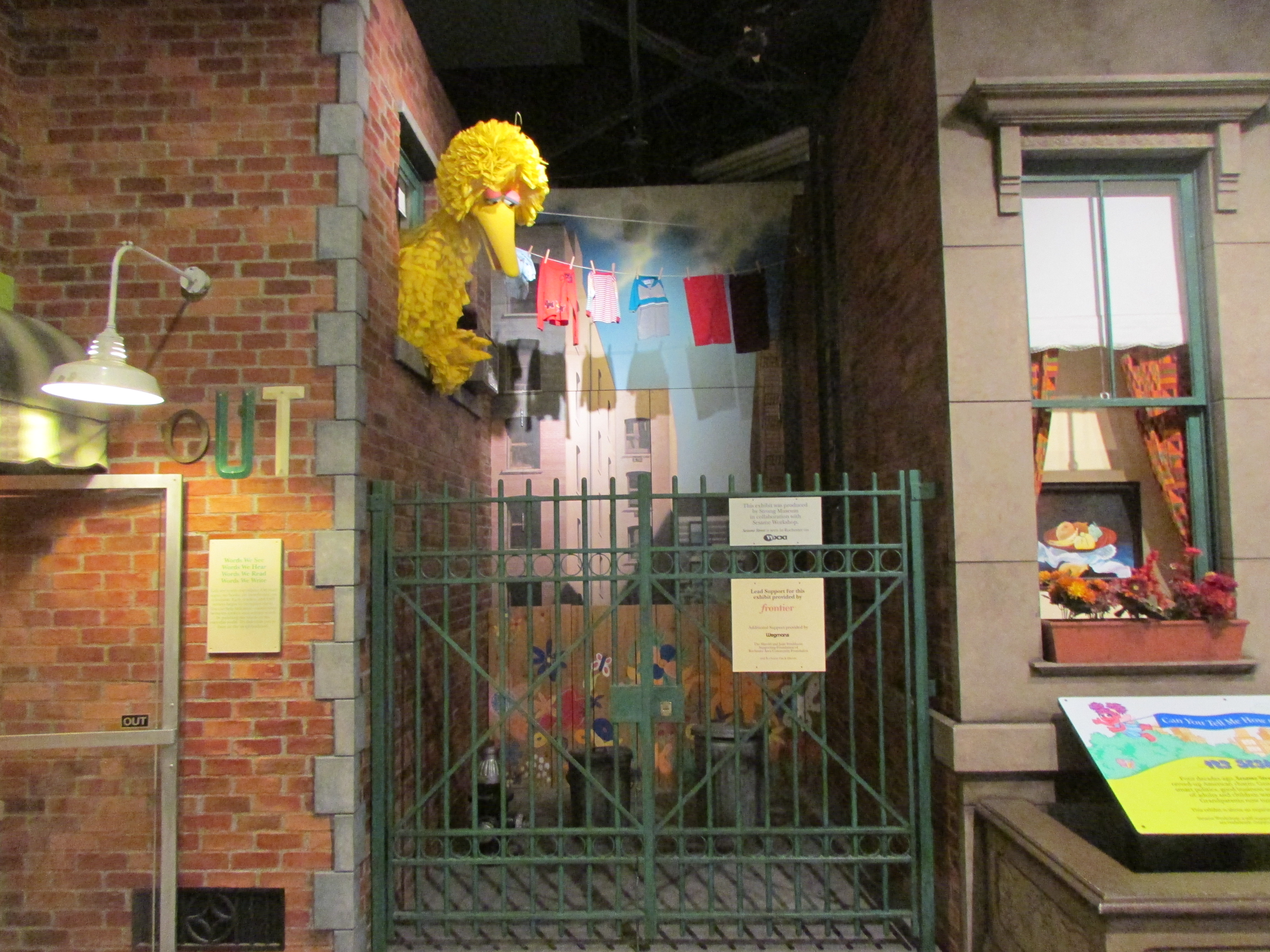 Sesame Street at The National Museum of Play in Rochester NY